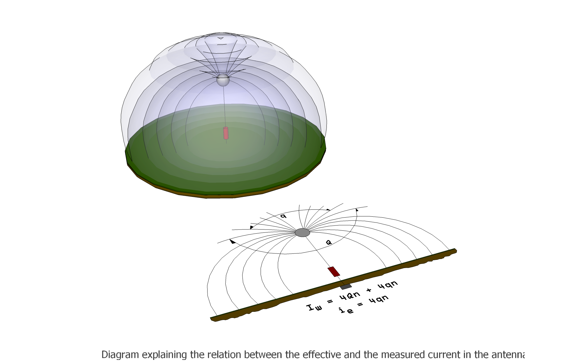 Tesla True Wireless Fig14